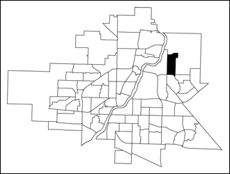 A map showing the location of the Silverspring neighbourhood in relation to the other neighbourhoods in Saskatoon.